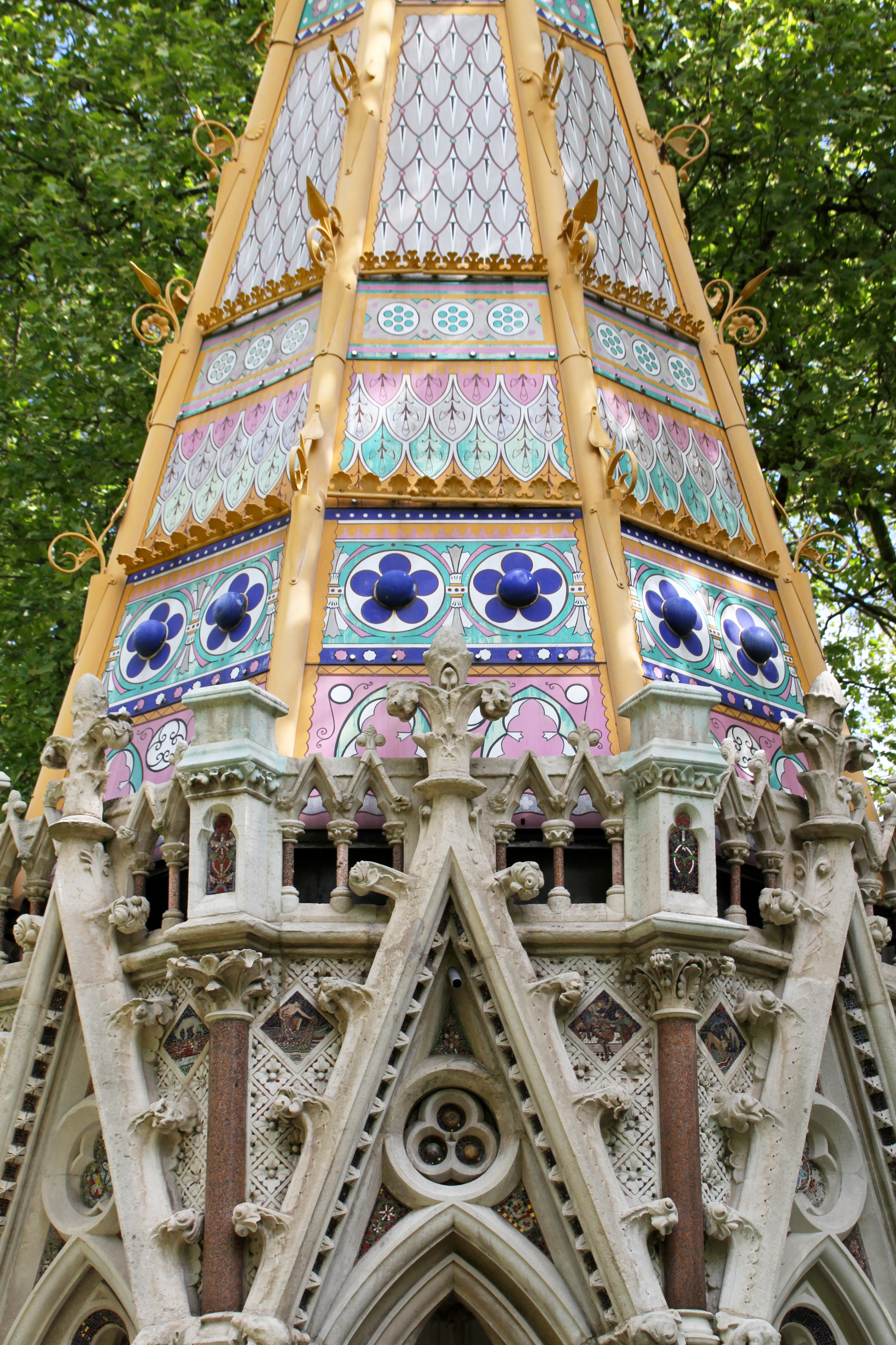 Fountain to celebrate the Emancipation of Slaves in 1834 2